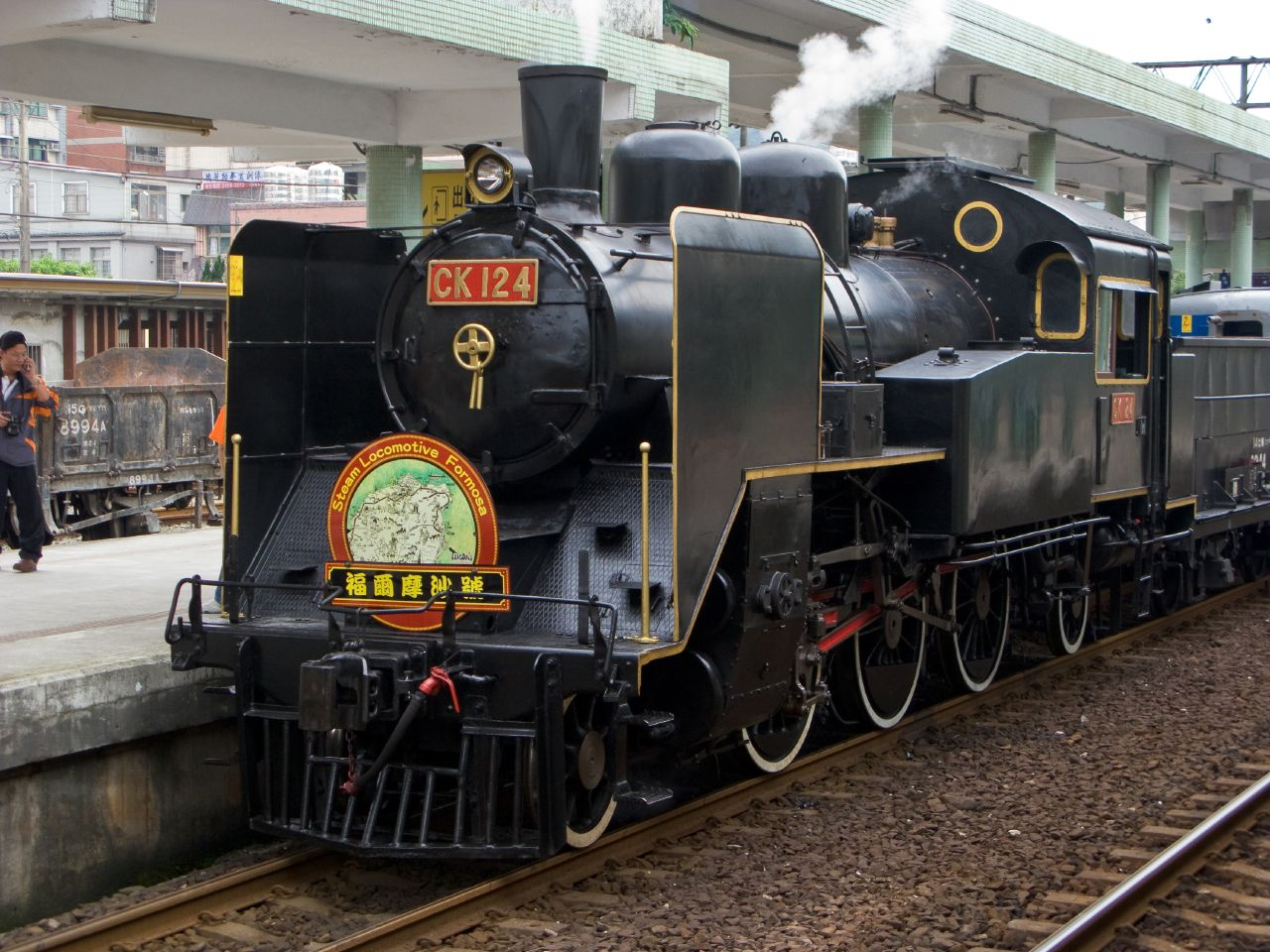 Taiwan Railway Administration steam locomotive CK124 at Platform 1, Rueifang Station 中文（台灣）: 臺灣鐵路管理局蒸氣機車CK124於瑞芳車站第一月台